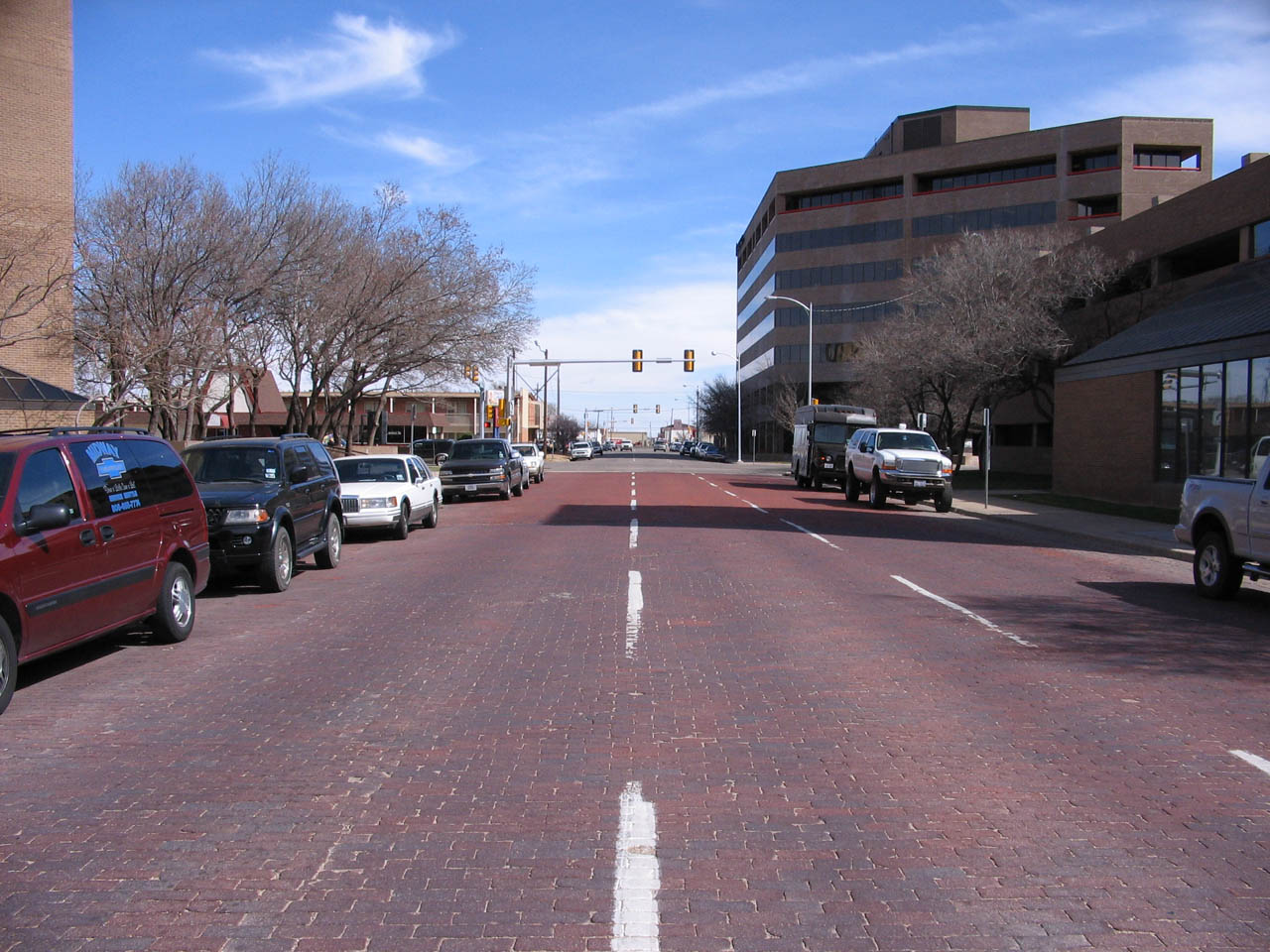 Uploaded just to display the brick streets in Amarillo, Texas. The photo was quickly taken by the uploader. View is from E 8th Ave looking east toward S Fillmore St.